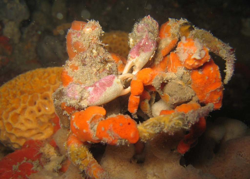 A pair of Sponge Decorator Crabs (Hyastenus elatus) grappling. Pipeline, Port Stephens, NSW